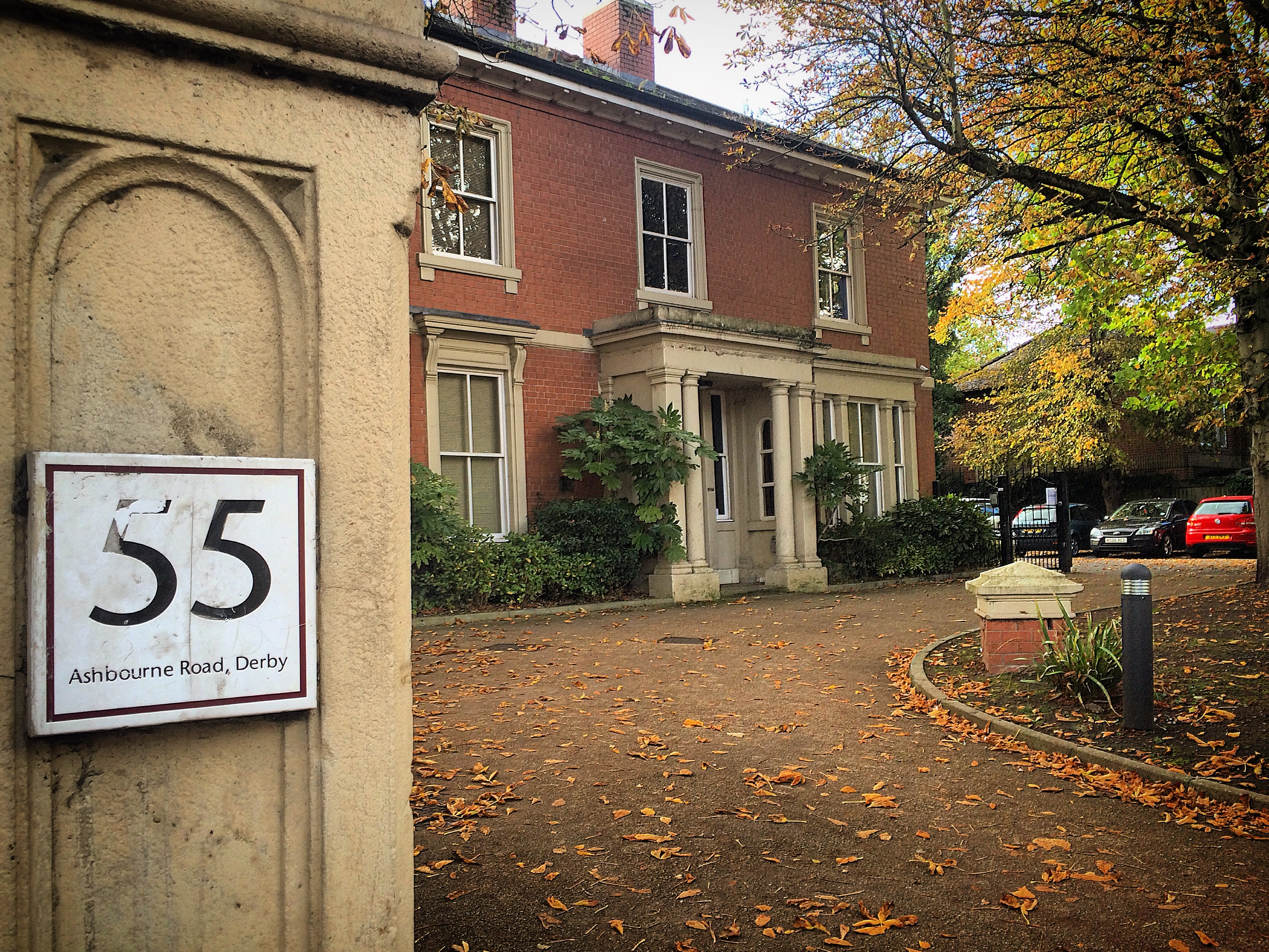 The entrance of 55 Ashbourne Road in Derby where Core Design used to be the place where Tomb Raider was made.